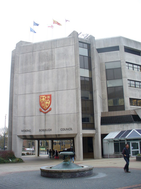 Woking Borough Council Monolithic "town hall" in Woking centre. It sits in a pedestrian precinct on the north side of the shopping centre.